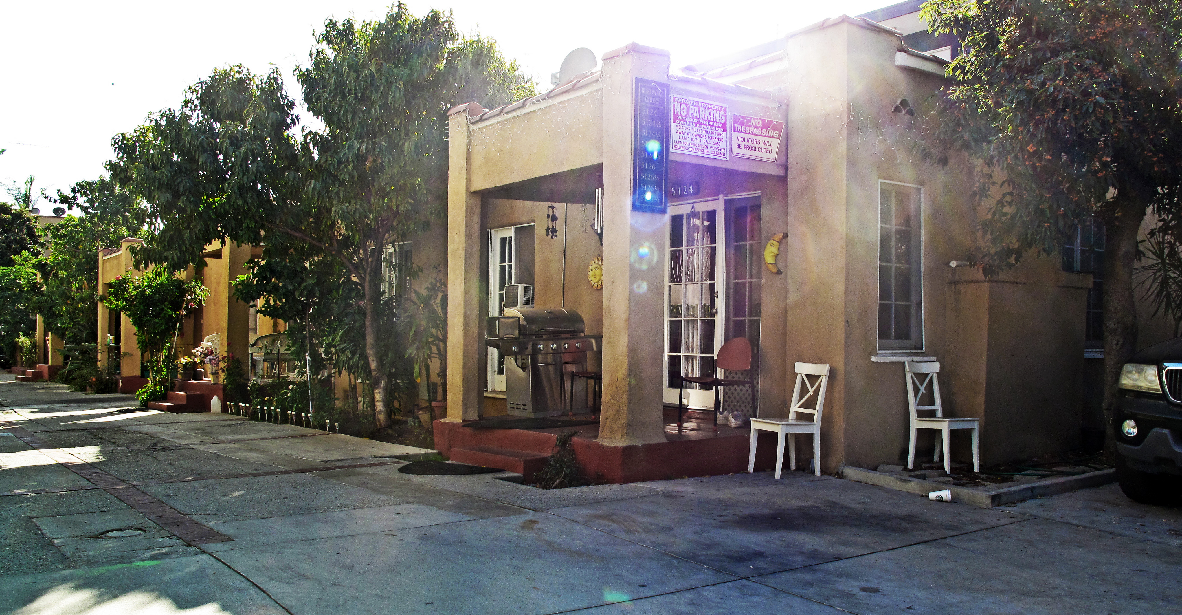 Bukowski Court, 5124 DeLongpre Avenue, Los Angeles. Los Angeles Historic-Cultural Monument #912.